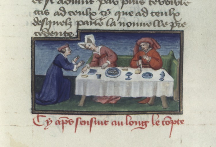 Boccaccio, Decameron, MS BNF Francais 239 f 134r